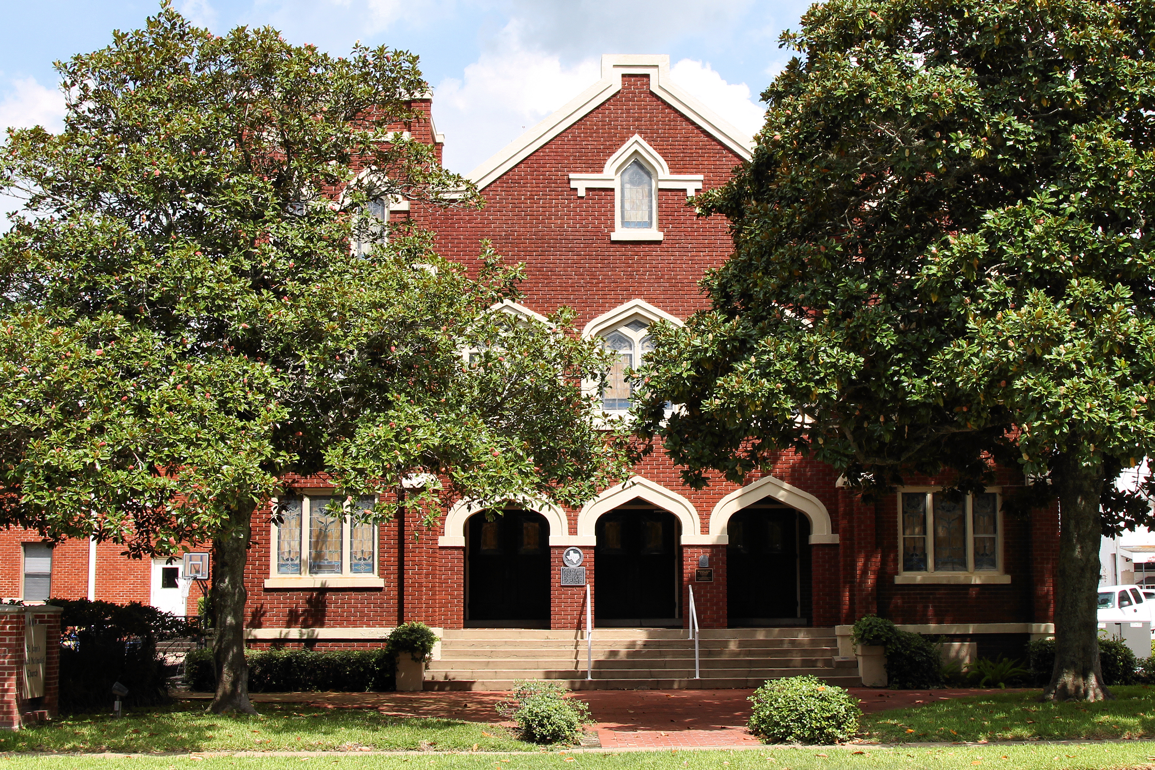 St. John's United Methodist Church in Richmond, Texas was built in 1922 and designated a Recorded Texas Historic Landmark in 1983.